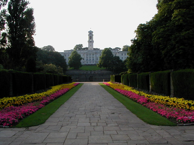 Nottingham University from Highfields Park. The main entrance avenue to Highfields Park